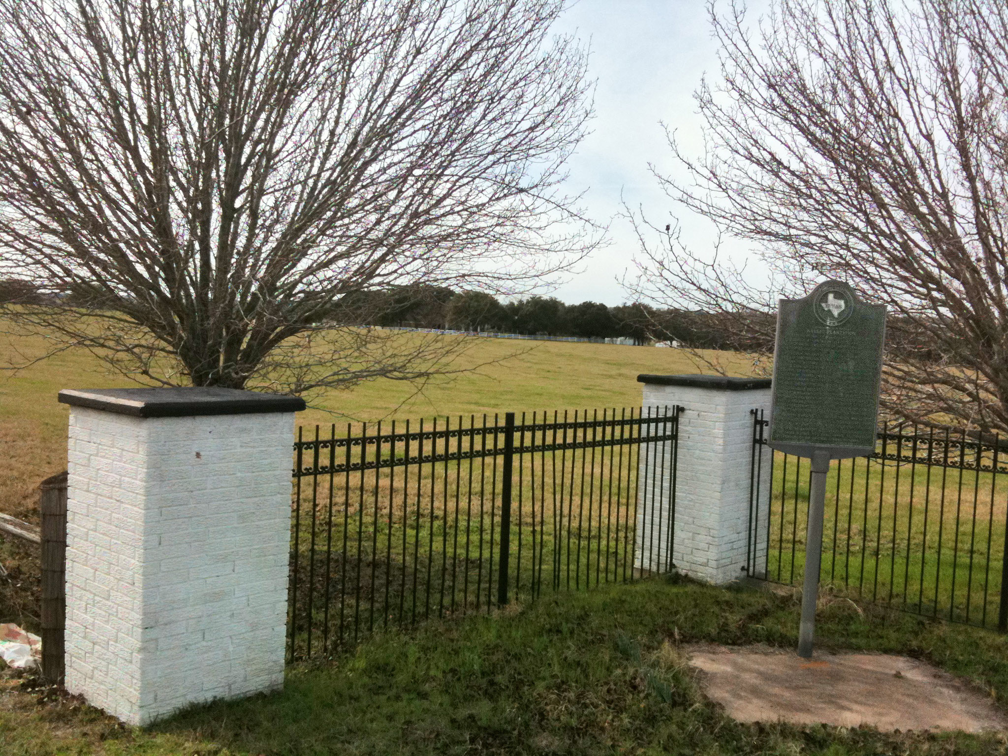 View of historical marker and part of the site of the Nassau Plantation — near Round Top, Fayette County, Texas.